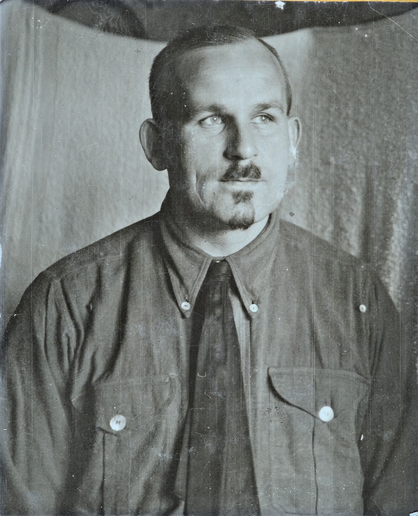 The SA-man Karl Belding (1897-1934), executed on July 1 1934 as one of the victims of the Night of the Long Knives.